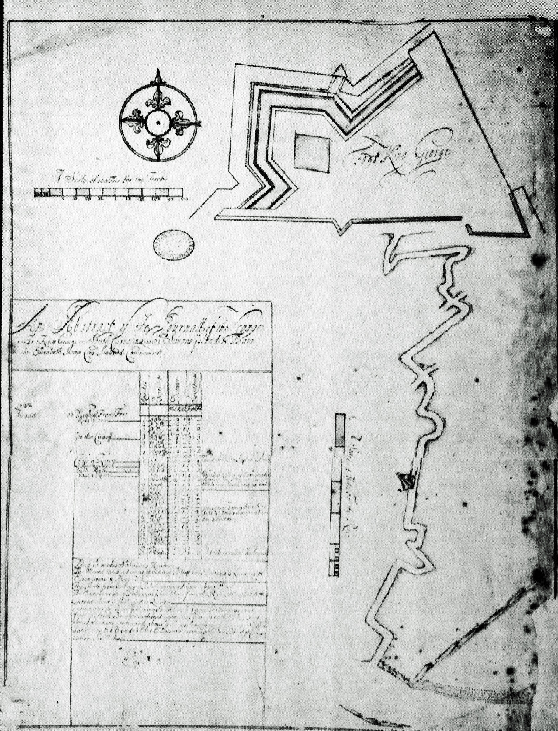 Capt. Stollard's 1722 plan of Fort King George and part of the river to St. Simons Island and Barr. An inset details reaches, bearings, distances, and surroundings, together with sailing directions from point to point